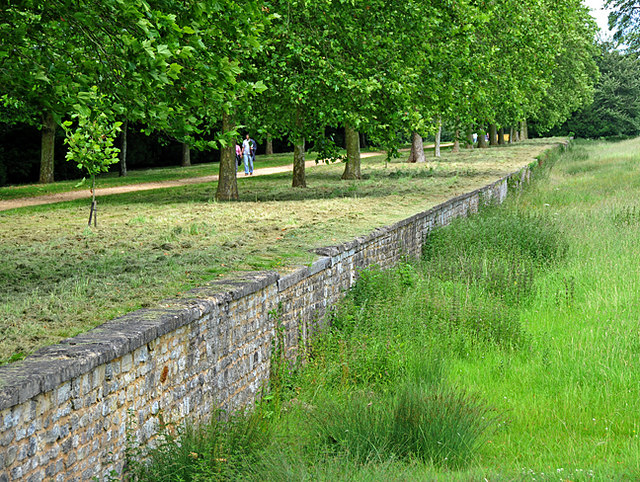 The ha-ha, Stowe The ha-ha is a sunken boundary wall about 6 feet high around part of the Stowe Landscape Gardens. The ground inside is flush with the top of the wall; the ground at the base of the wall slopes gently upwards away from the gardens. This keeps animals (and people!) out while not being obtrusive from within. Ha-has have been quite widely used in other places - most recently as a security measure to keep vehicles away from sensitive sites.